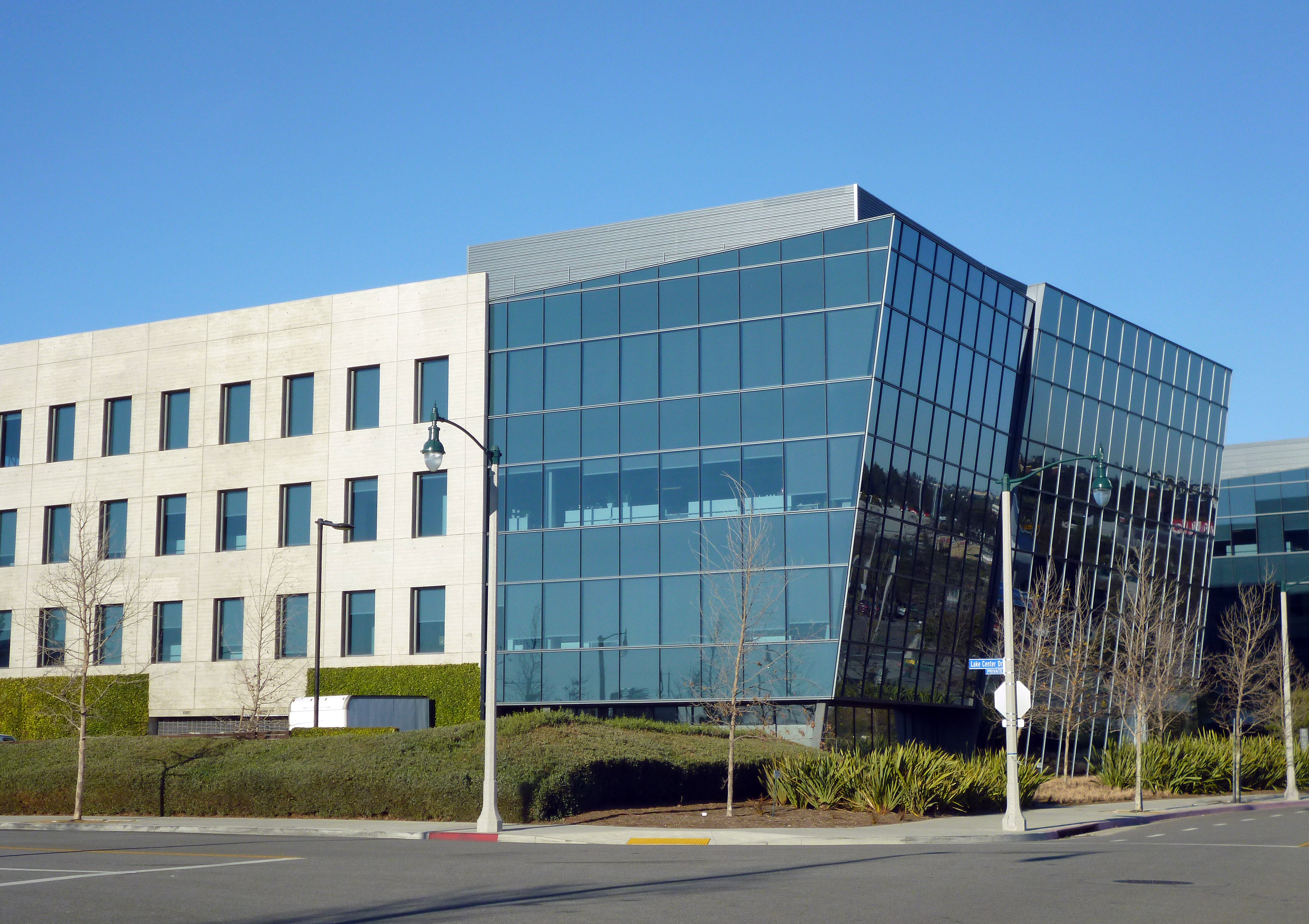 Belkin headquarters in Playa Vista, Los Angeles, California. Photographed by user Coolcaesar on January 20, 2013.